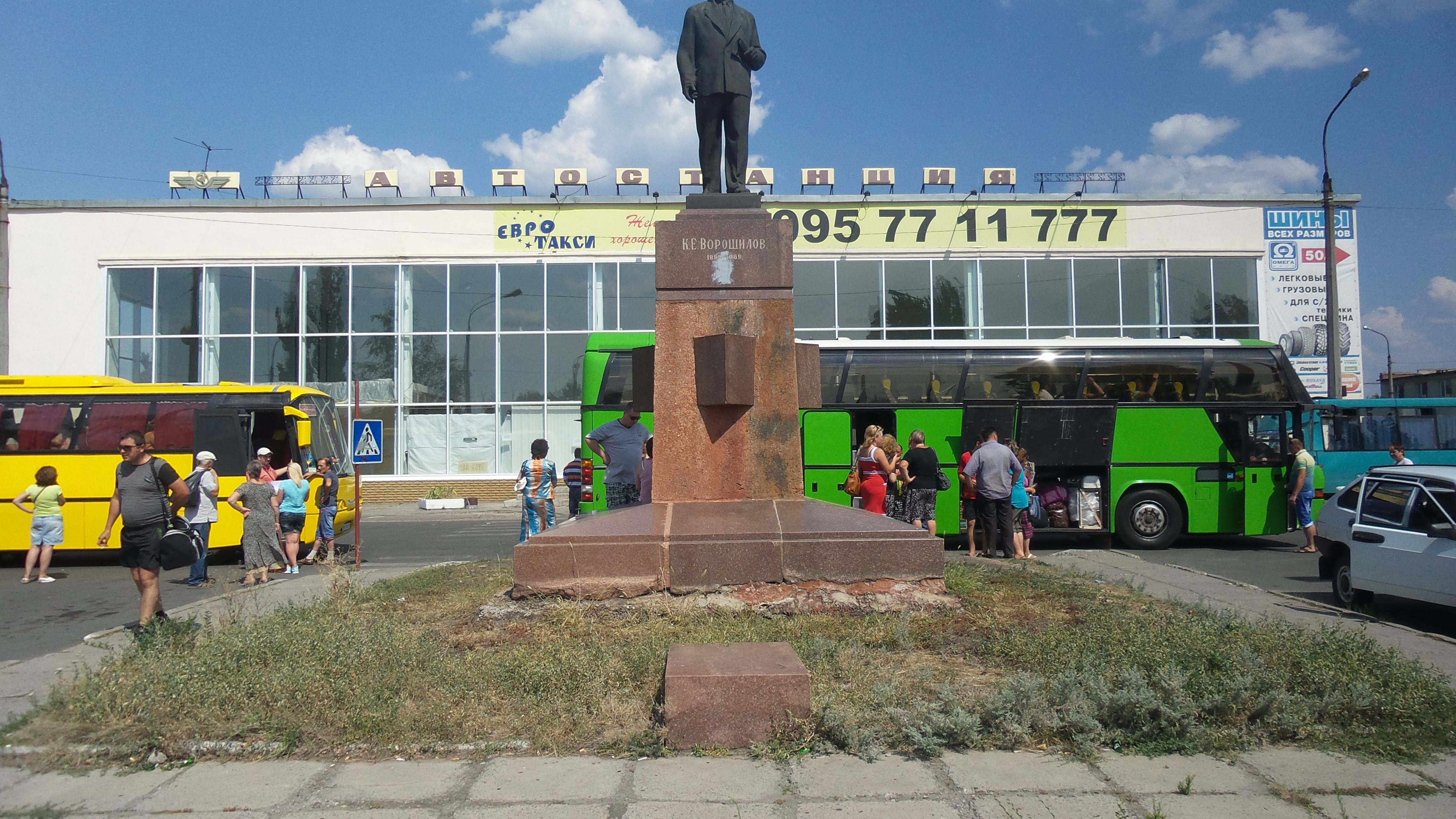 Syevyerodonetsk after liberation. Lugansk region.